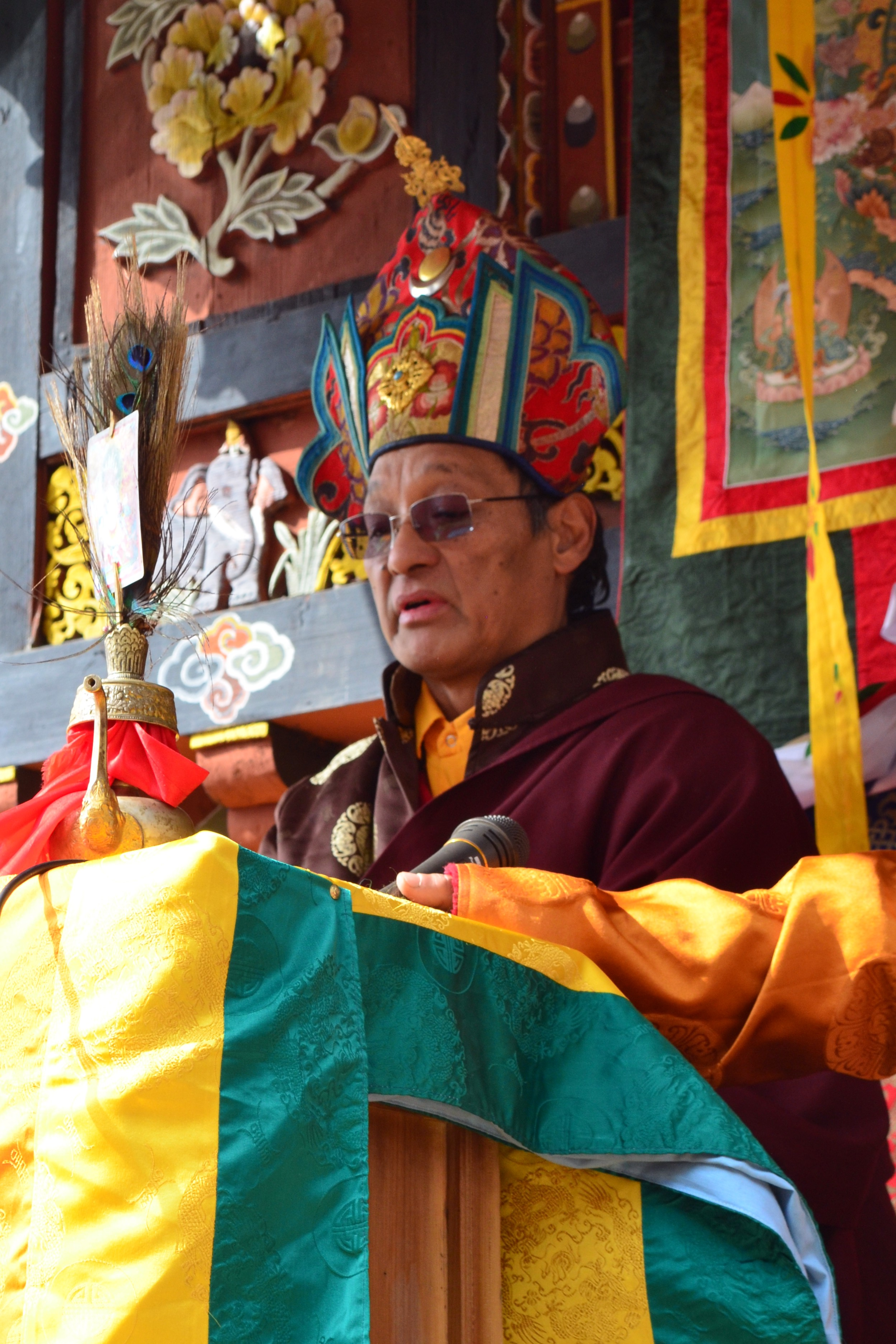 H.E. Gangteng Tulku Rinpoche, Kunzang Rigdzin Pema Namgyal (b.1955). Photo taken at Tsakaling on 2012-01-23